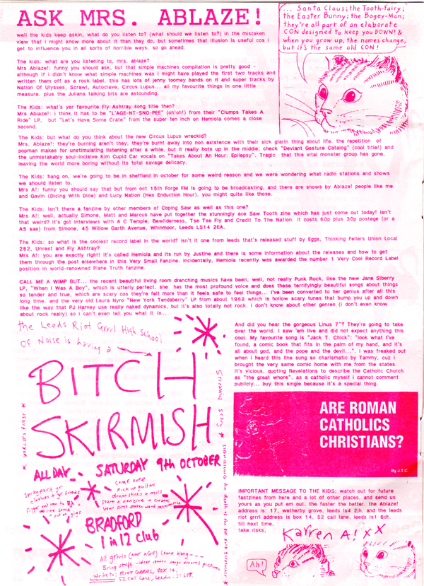 Ask Mrs Ablaze! feature from Issue 11 of Ablaze!. Features advert for Bitch Skirmish riot grrrl event gig in Bradford.